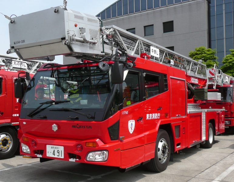 Hino MH fire engine.